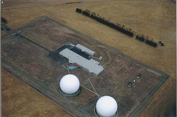 I took this aerial photo of the GCSB base at Waihopai, New Zealand.